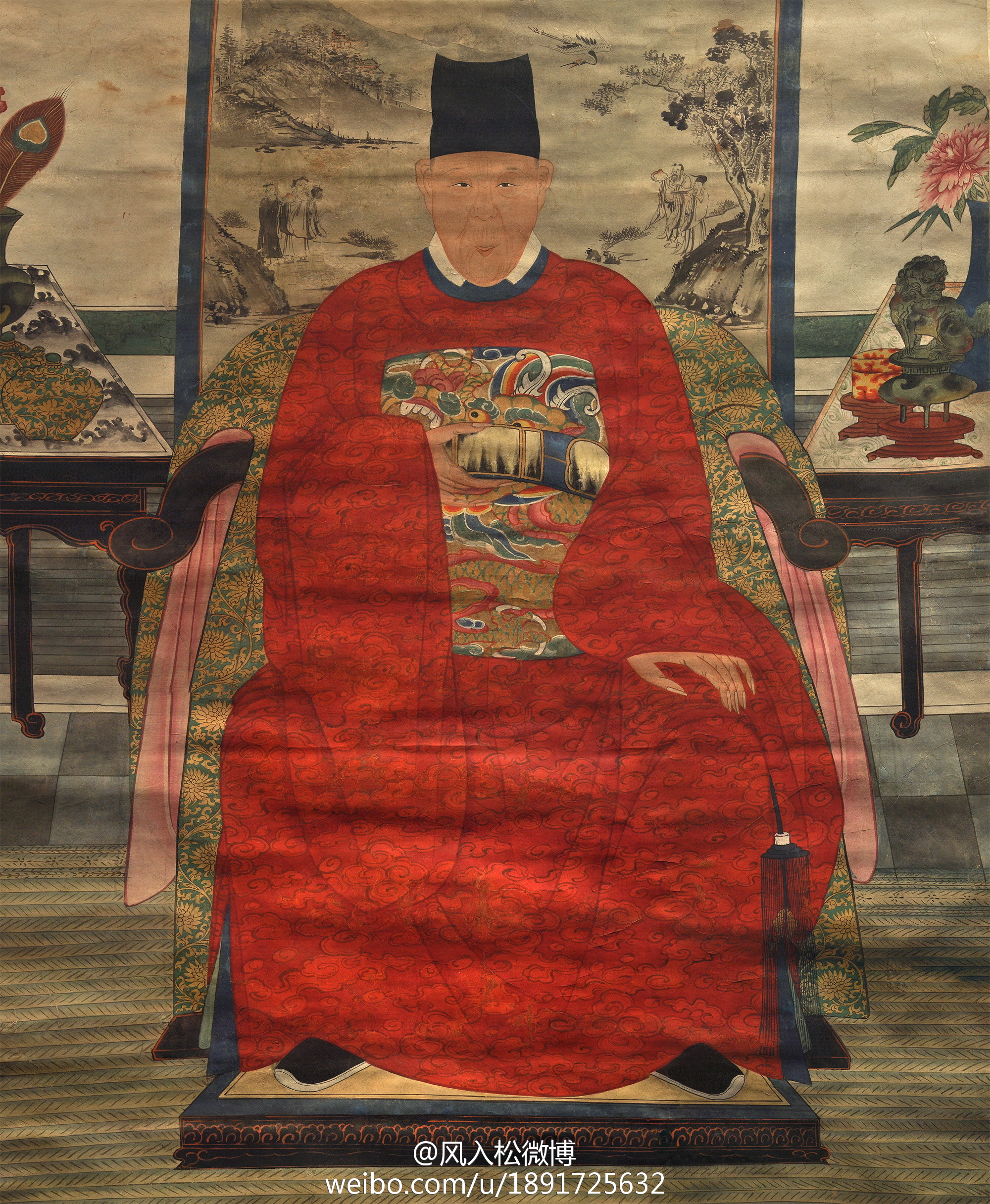 Zheng Zhao, painted in Ming Dynasty. Collected in Capital Museum, Beijing.